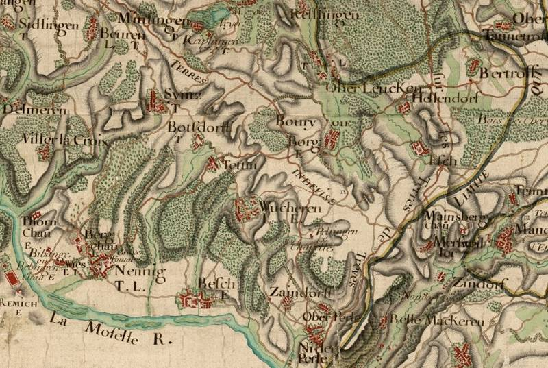 historic Map of Perl (Mosel)